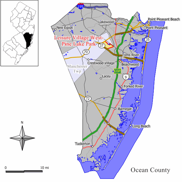 Source: Jim Irwin Original work by Jim Irwin, December 2005.